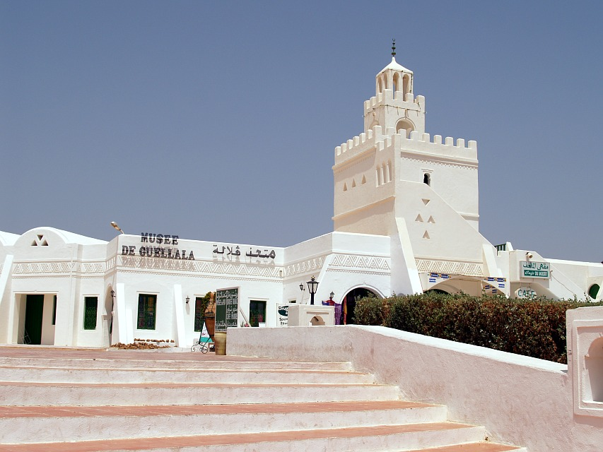 Guellala Museum - entrance